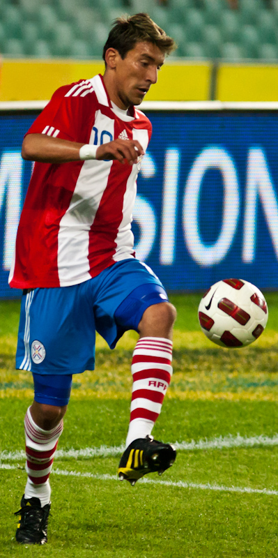 Edgar Benitez playing for the Paraguay national football team in a friendly match against Australia at the Sydney Football Stadium.